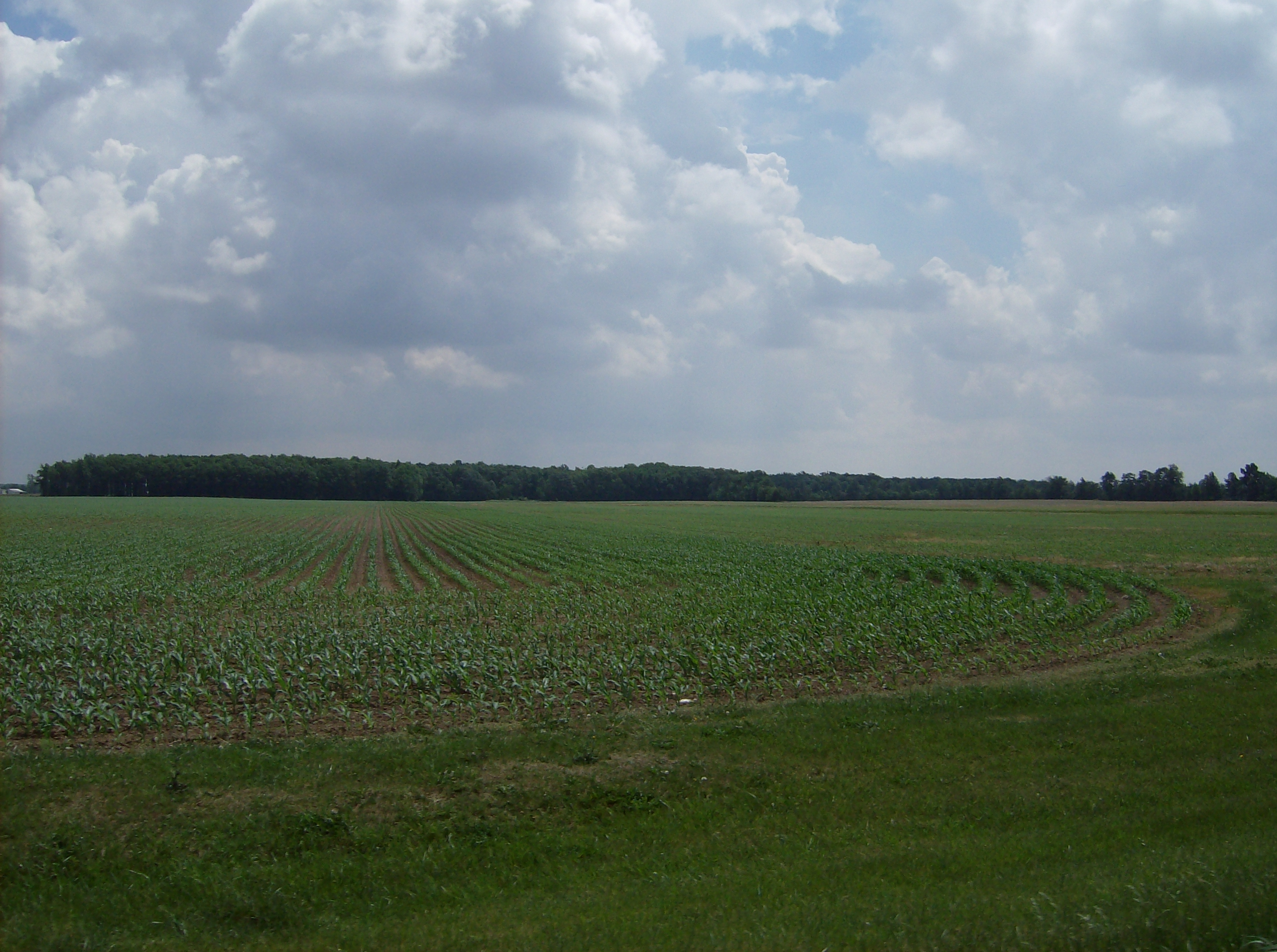 View of farmland and woodland in Blanchard Township, Hardin County, Ohio, United States. Picture taken eastward from U.S. Route 68.